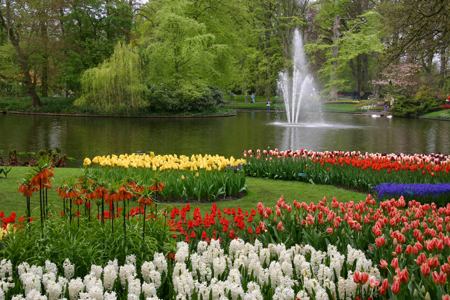 View of Keukenhof